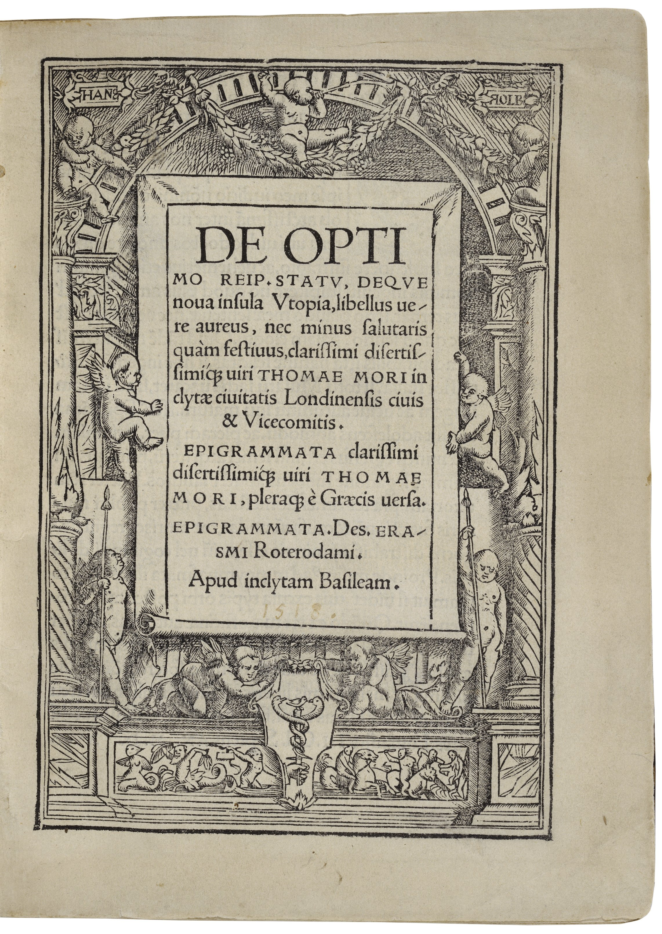 This is the frontispice of Thomas More's Utopia, printed in november 1518 by Johan Froben.